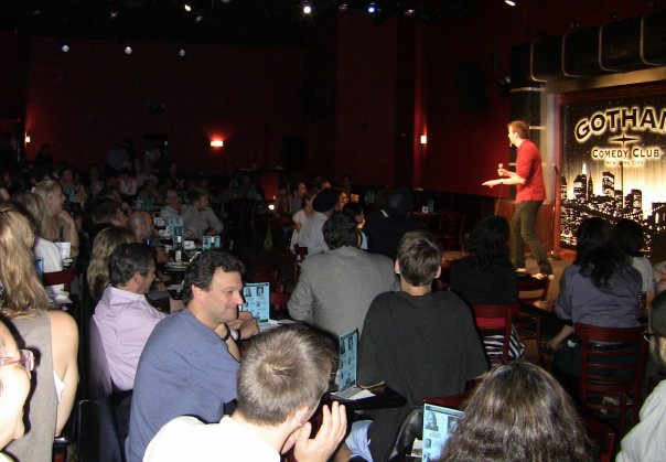 Brian McFadden kept the crowd roaring at the Gotham Comedy Club